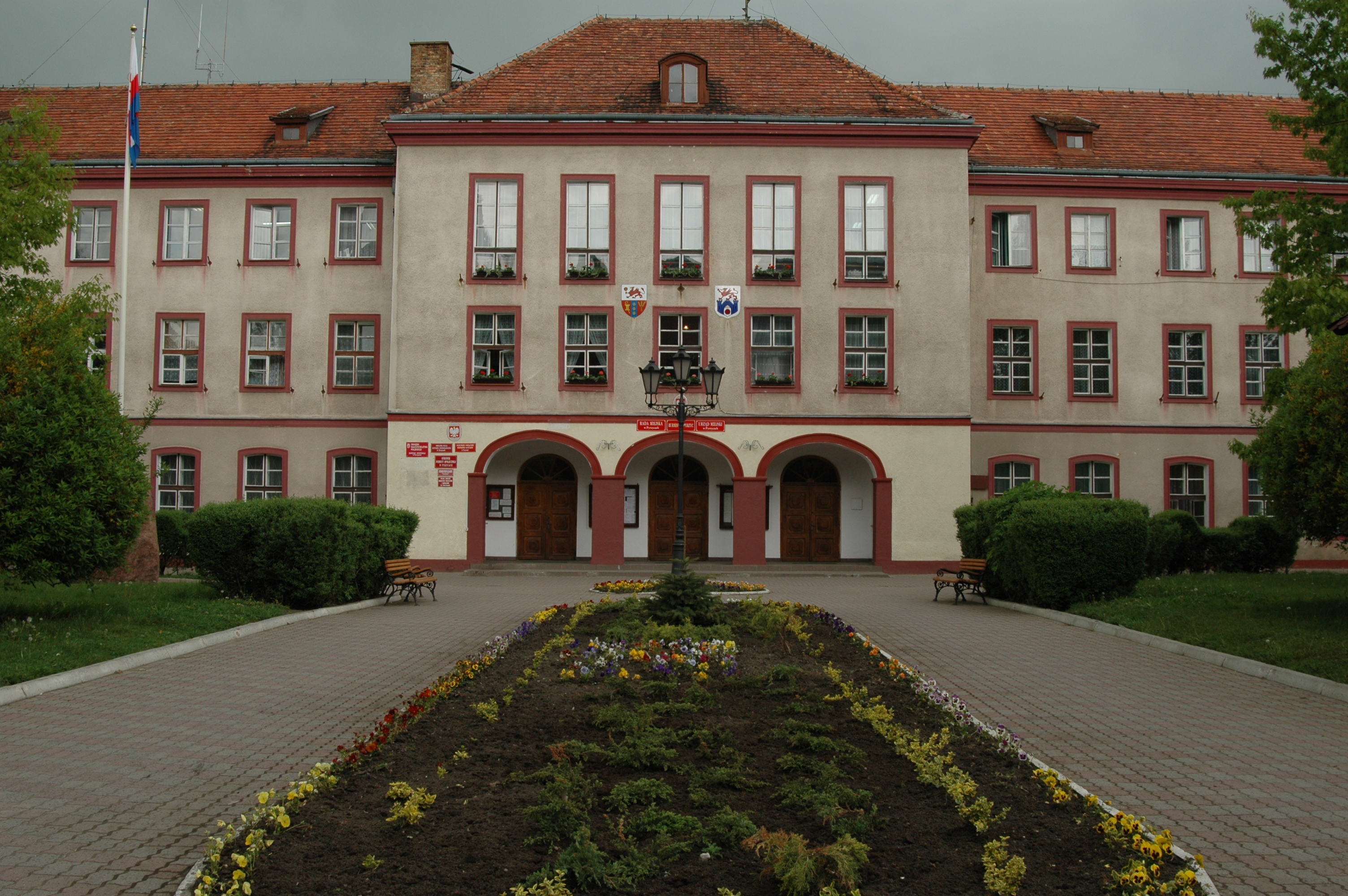 Image taken by me in May 2006 of Pyrzyce City Hall in North-west Poland. Sonicmixmaster 05:50, 2 October 2007 (UTC)